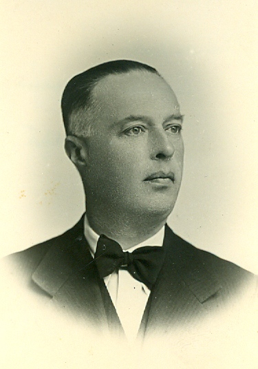 Luigi Sessa industriale (1887-1959)